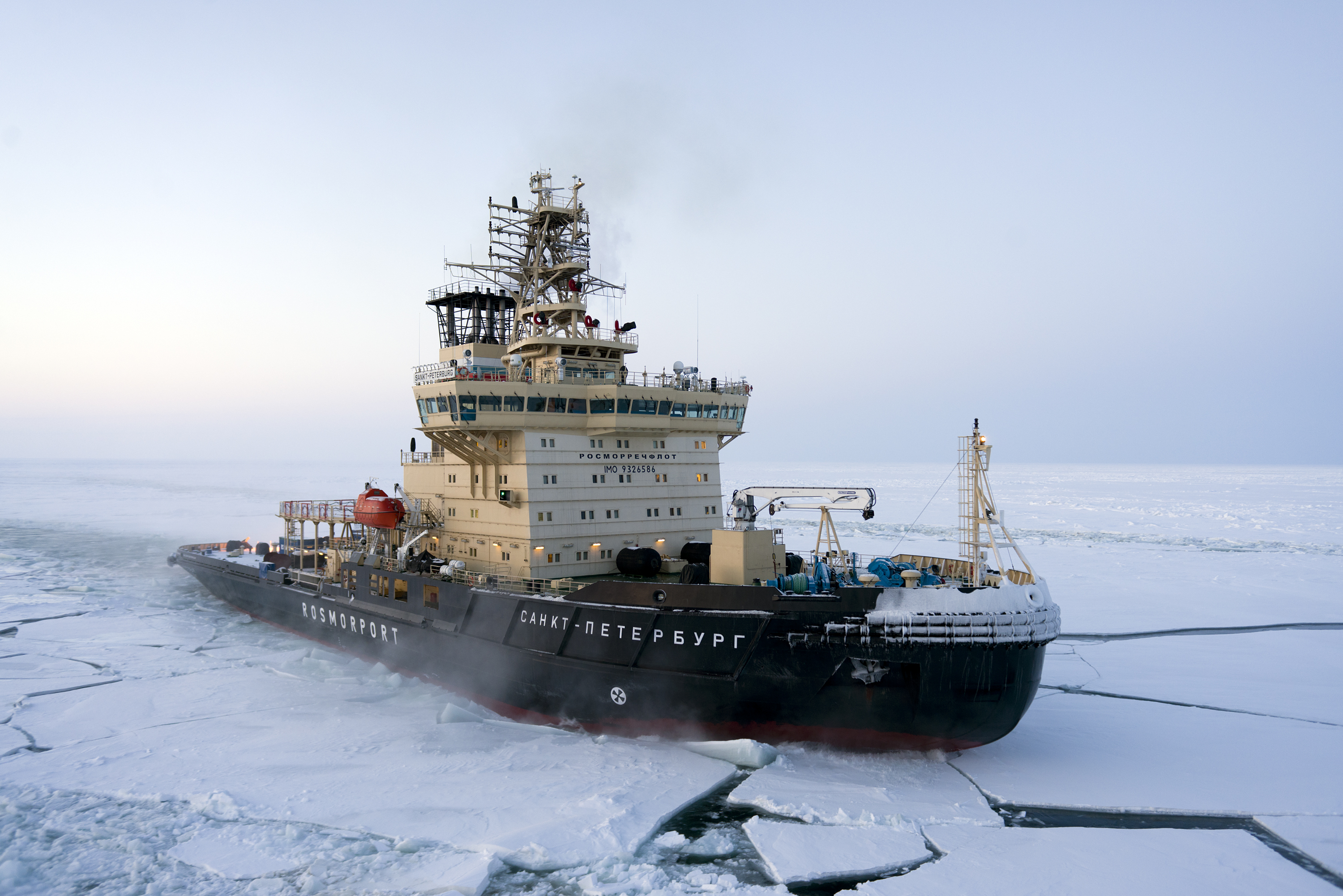 Sankt-Peterburg in the Kara Sea on 25 March 2015.